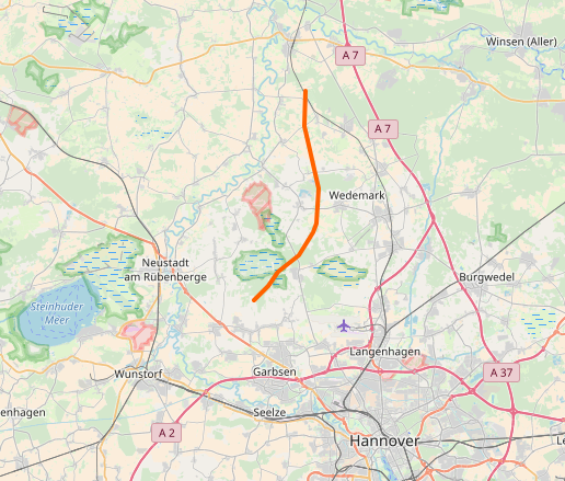 Course of Strecke 24 (historic motorway, never completed)